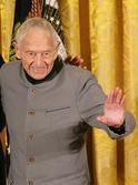 Andrew Wyeth, US painter, while receiving the 2007 Medal of the Arts at the White House